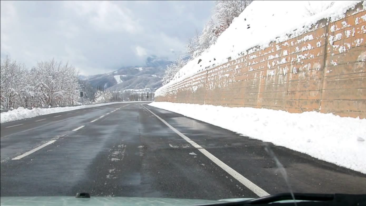 Picture taken on State Road n. 4 "Via Salaria", from the moving car.